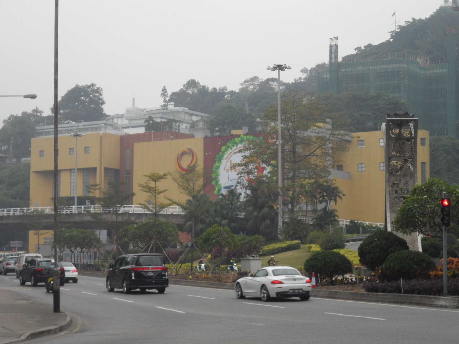 CEM System Dispatch Center, Freguesia da Sé, Macau, China